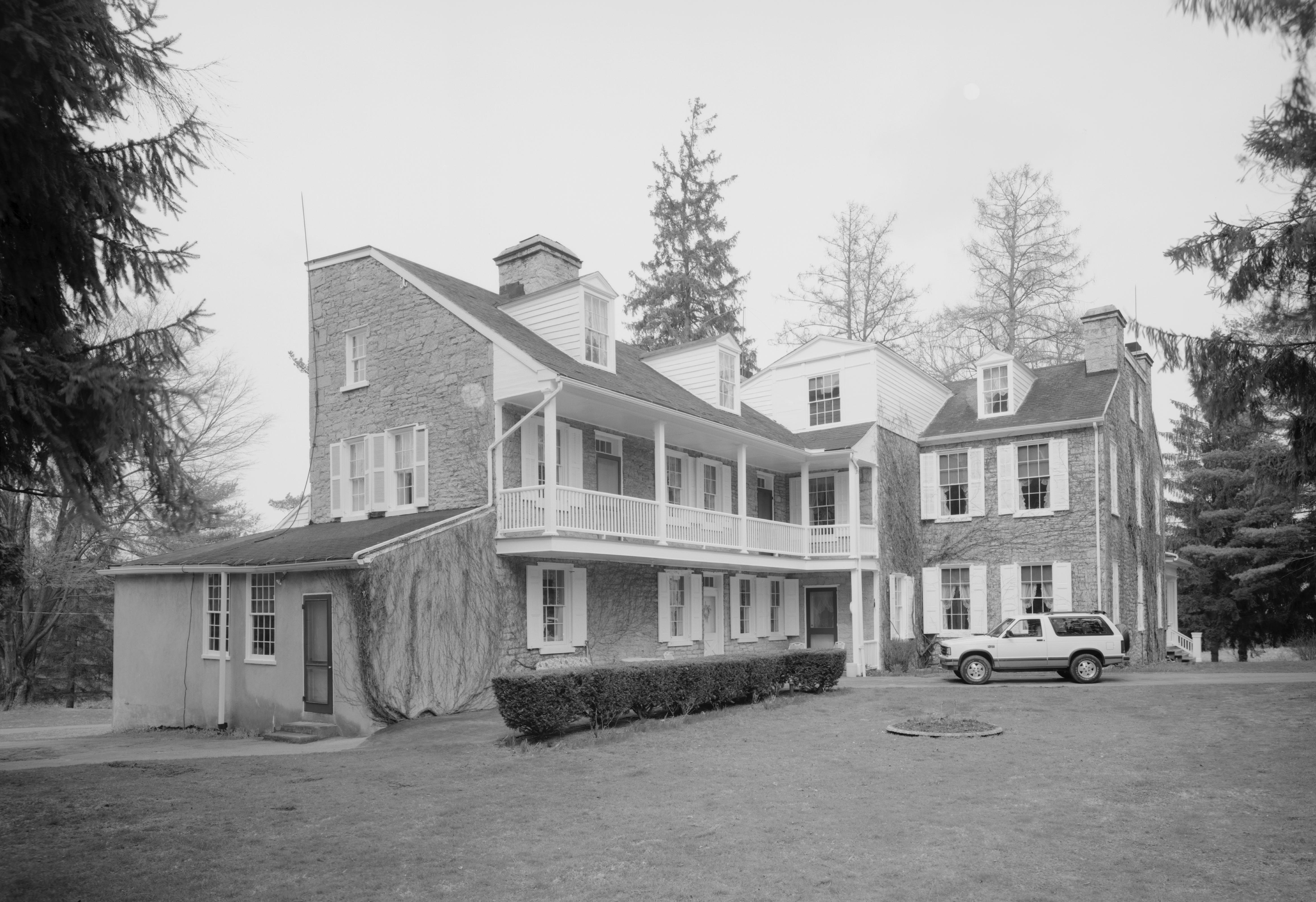 Front of the Pennsylvania Furnace Mansion, located off Pennsylvania Route 45 in Franklin Township, Huntingdon County, Pennsylvania, United States. Built in 1834, the house is listed on the National Register of Historic Places.